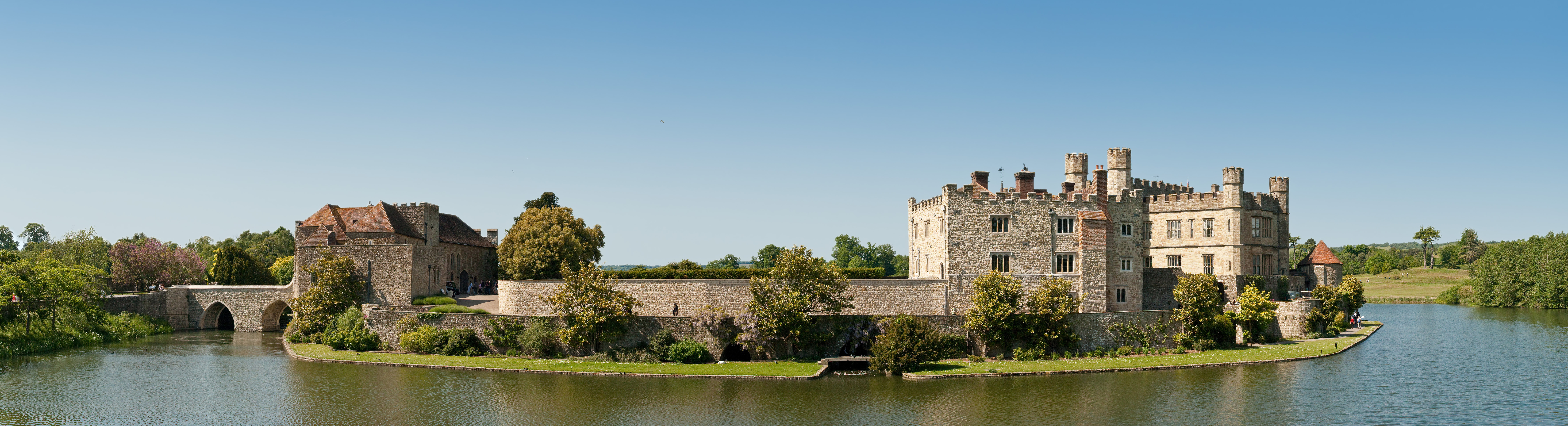 A high resolution image of the rear side of Leeds Castle in Kent, England, showing the moat structure. Taken by myself with a Canon 5D and 70-200mm f/2.8L at 70mm, ISO 1600 (oops!) and f/14.